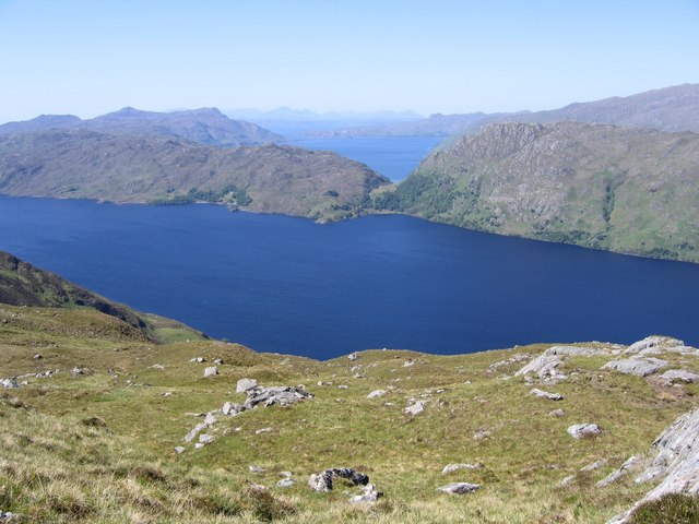 View from Druim a' Chuirn ridge Superb view across Loch Morar, Loch Nevis to Skye.